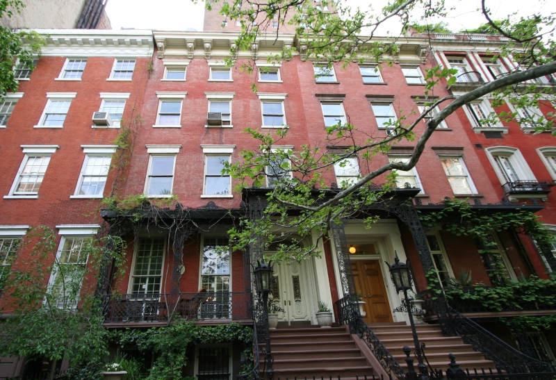 Current view of 4 Gramercy Park in New York City, the former residence of NYC Mayor James Harper. Taken May 3, 2006 by Jim Harper.